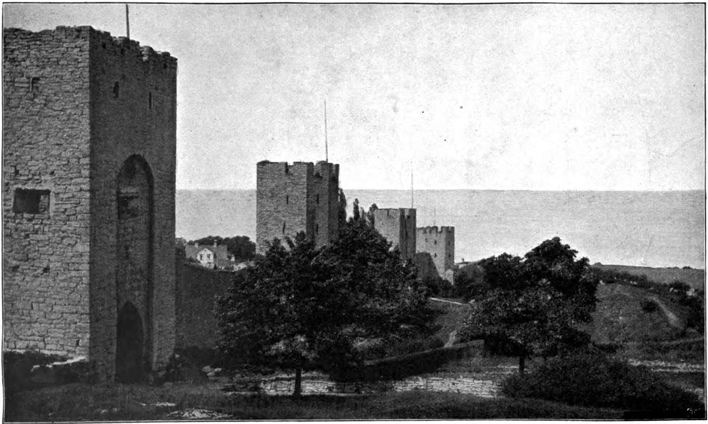 Northern part of Visby ringmur photo by G. F. Fant from Nils Holgerssons underbara resa genom Sverige by Selma Lagerlöf.